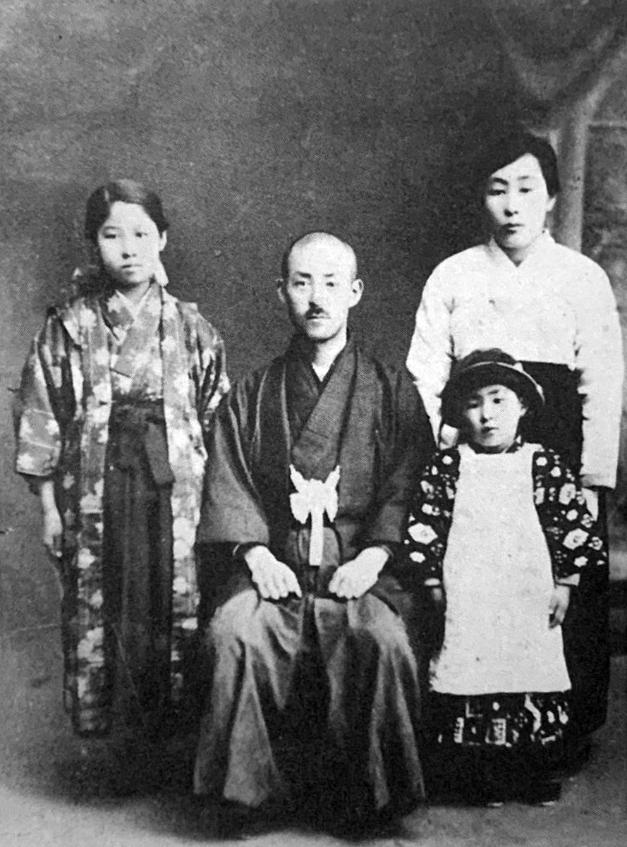 Lieutenant General Hong Sa-ik (1889-1946) and his family